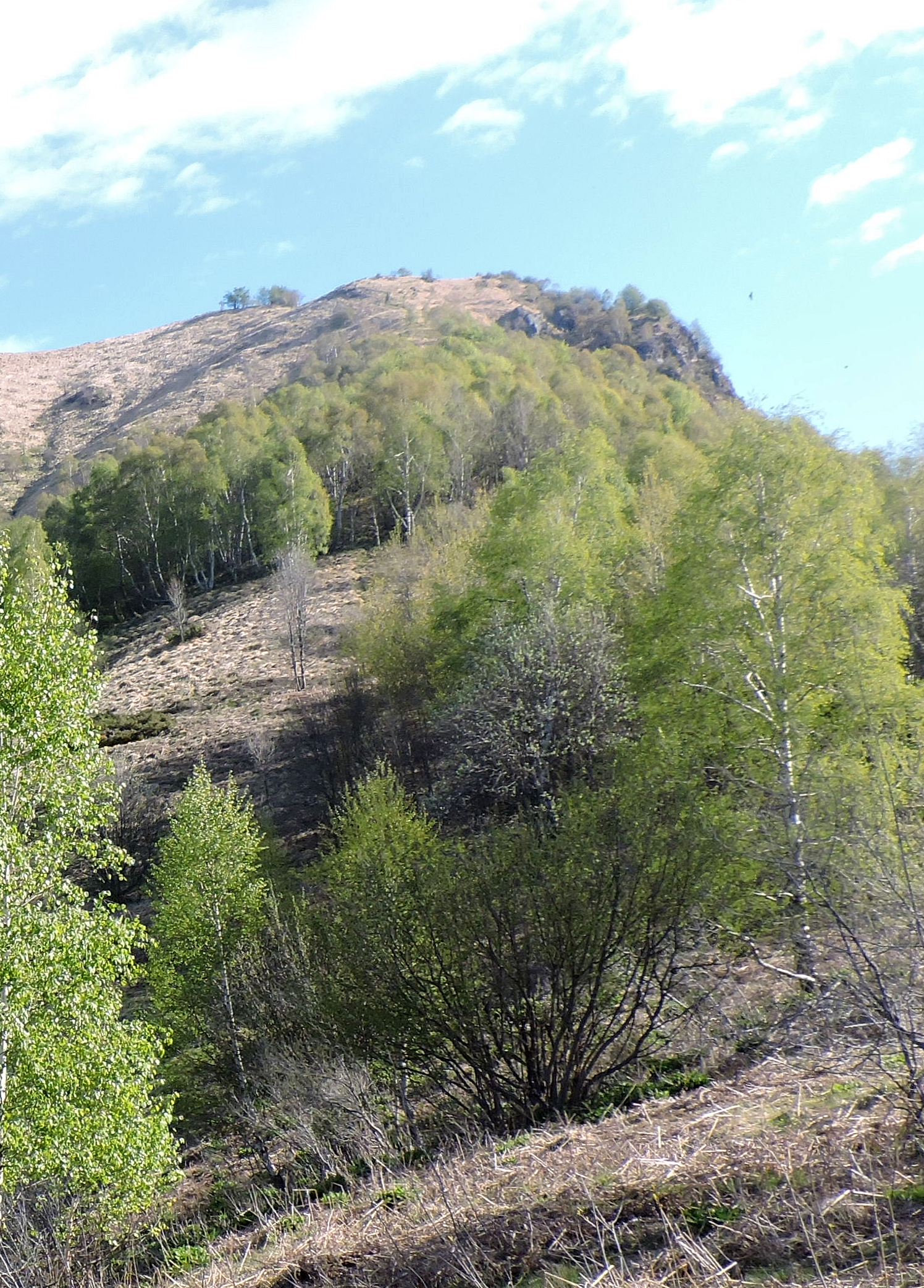 Cima del Camossaro (Alpi Cusiane, Italy) south view